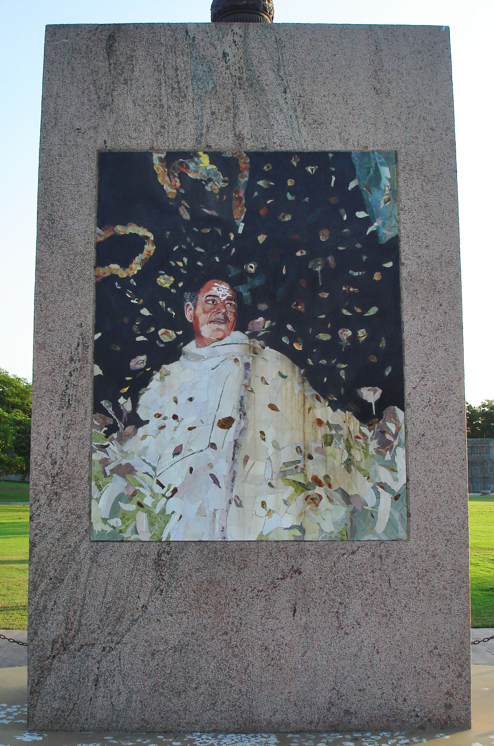 A stone mosaic stands at the spot of assasination of the late Indian prime minister Rajiv Gandhi, Rajiv Gandhi Memorial